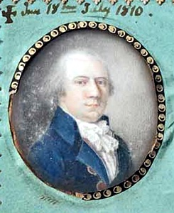 Carl Wilhelm von Spee (1758-1810), Kammerherr in Bayern, kurkölnischer Geheimrat